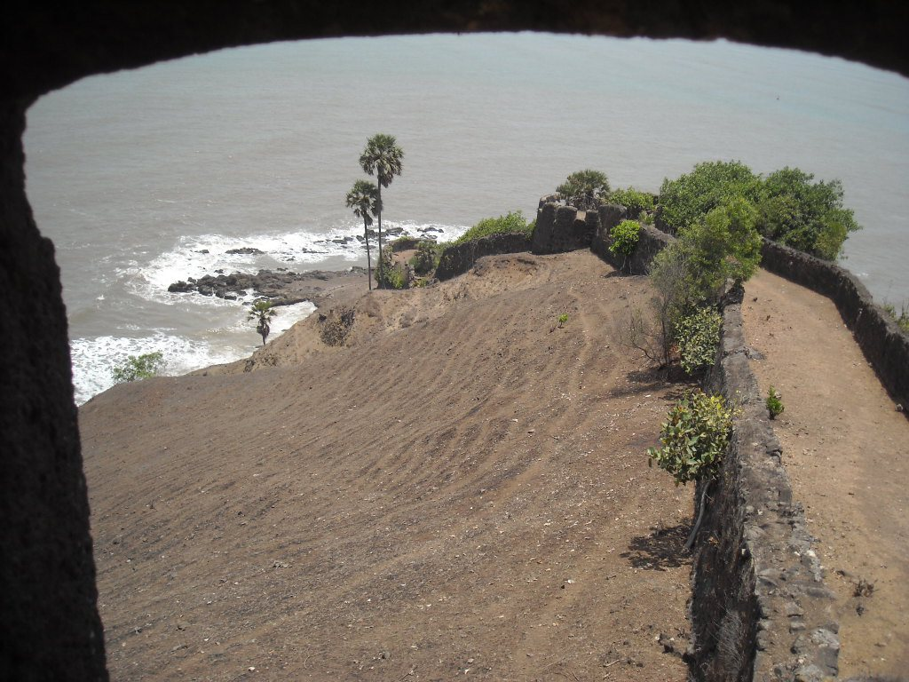 image was taken from korlai fort, Maharastra, India